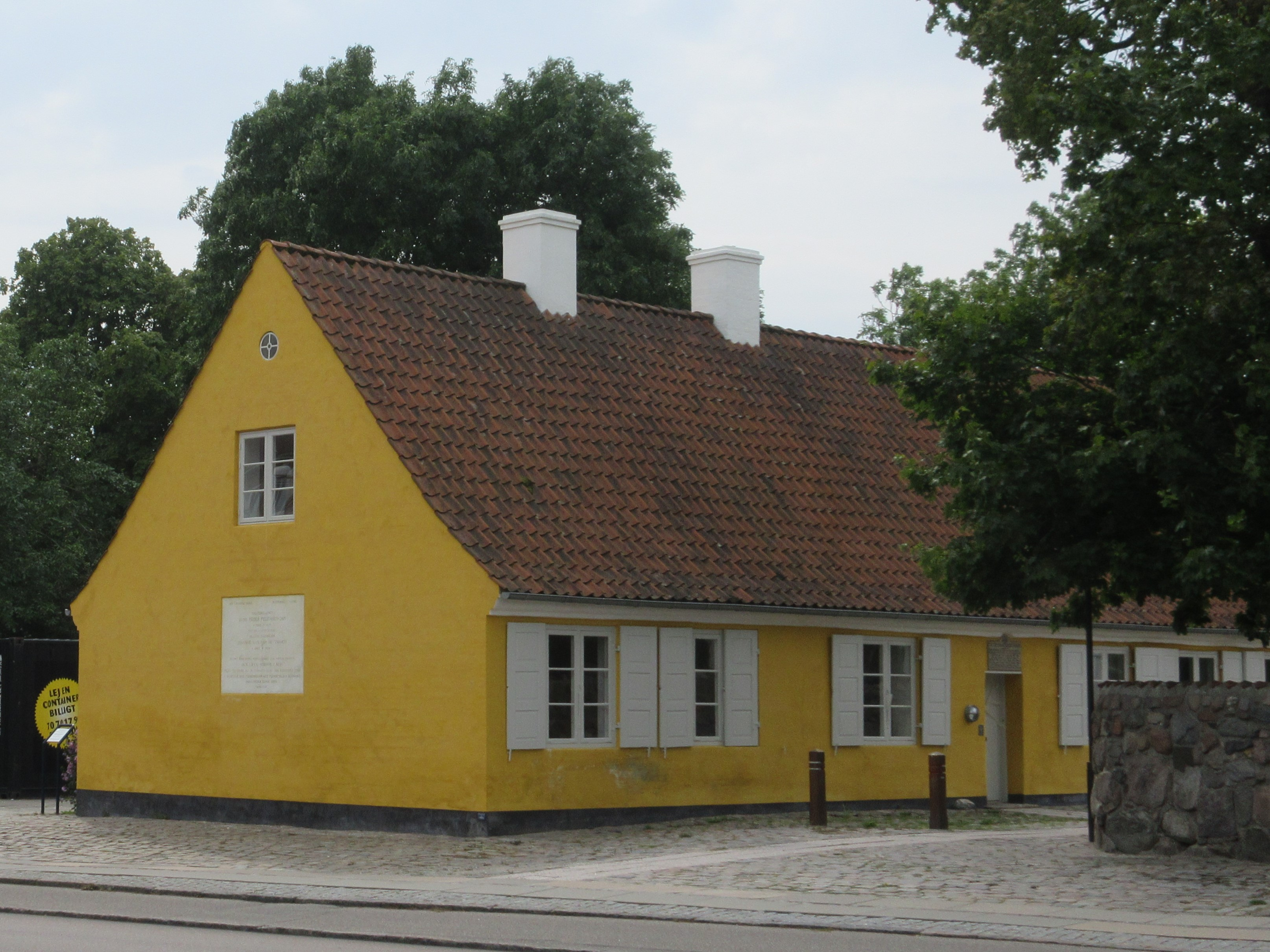 Hvidovre Rytterskole in Hvidovre, Hvidovre Municipality, Denmark